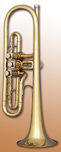 Trumpet in B, Potsdam Model by M.C.R. Andorff in Markneukirchen, made 1898